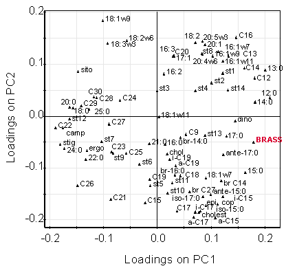 Original summary: PCA of mixed lipid biomarkers from the Mawddach Estuary, Wales. Data from Masni Mohd. Ali Ph.D. thesis (redrawn by Mudge, S.M. 2006).